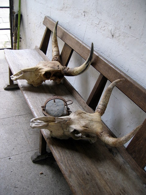 Chillingham Cattle trophies. Chillingham Castle is filled with many curiosities. These skulls of the Wild White Cattle 223440 are in the entrance porch.